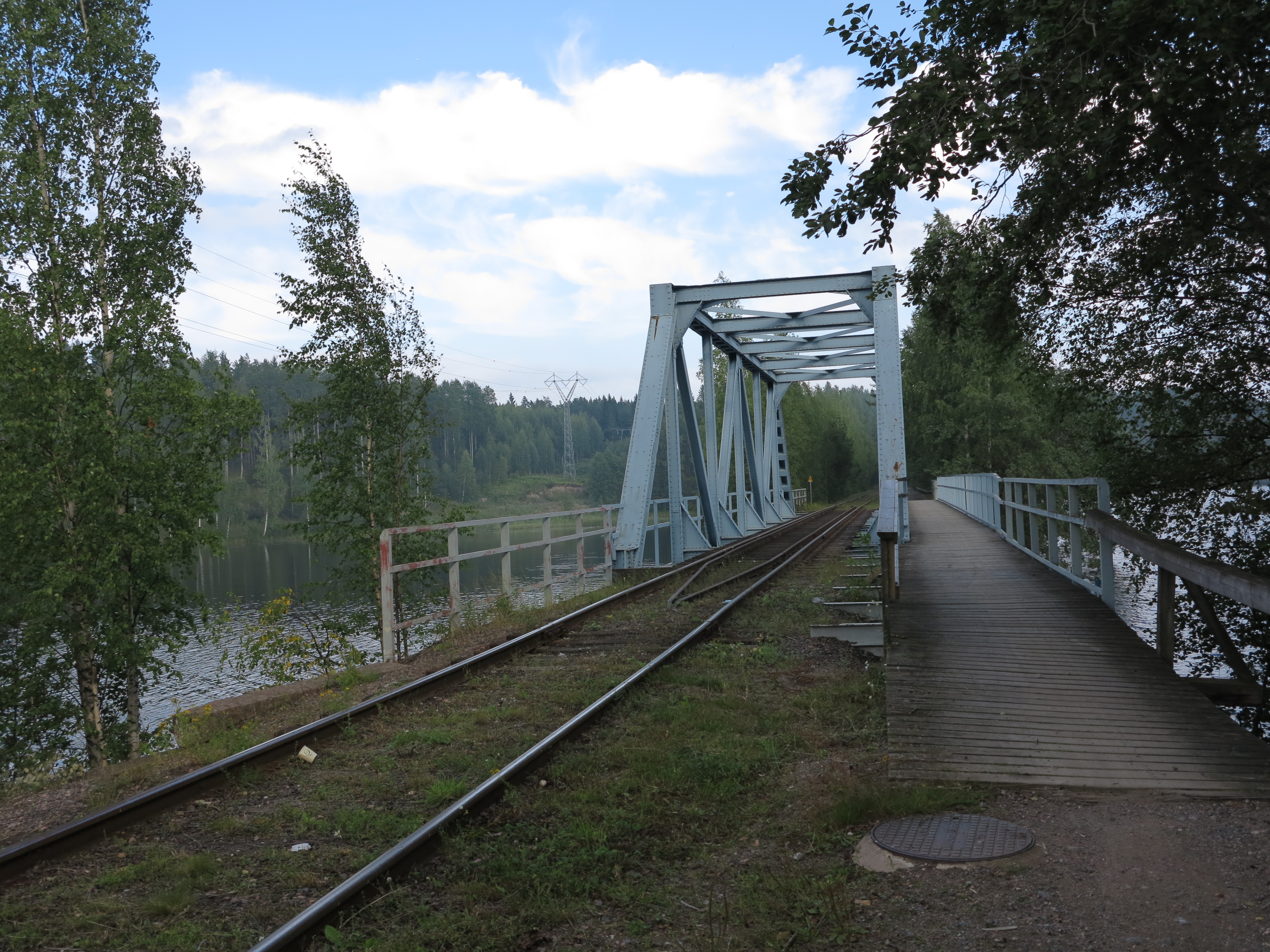 Railway bridge between Tommola and Rautsalo in Heinola, Finland